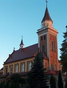 Church of Maria Magdalena in Kraków (Kosocice)